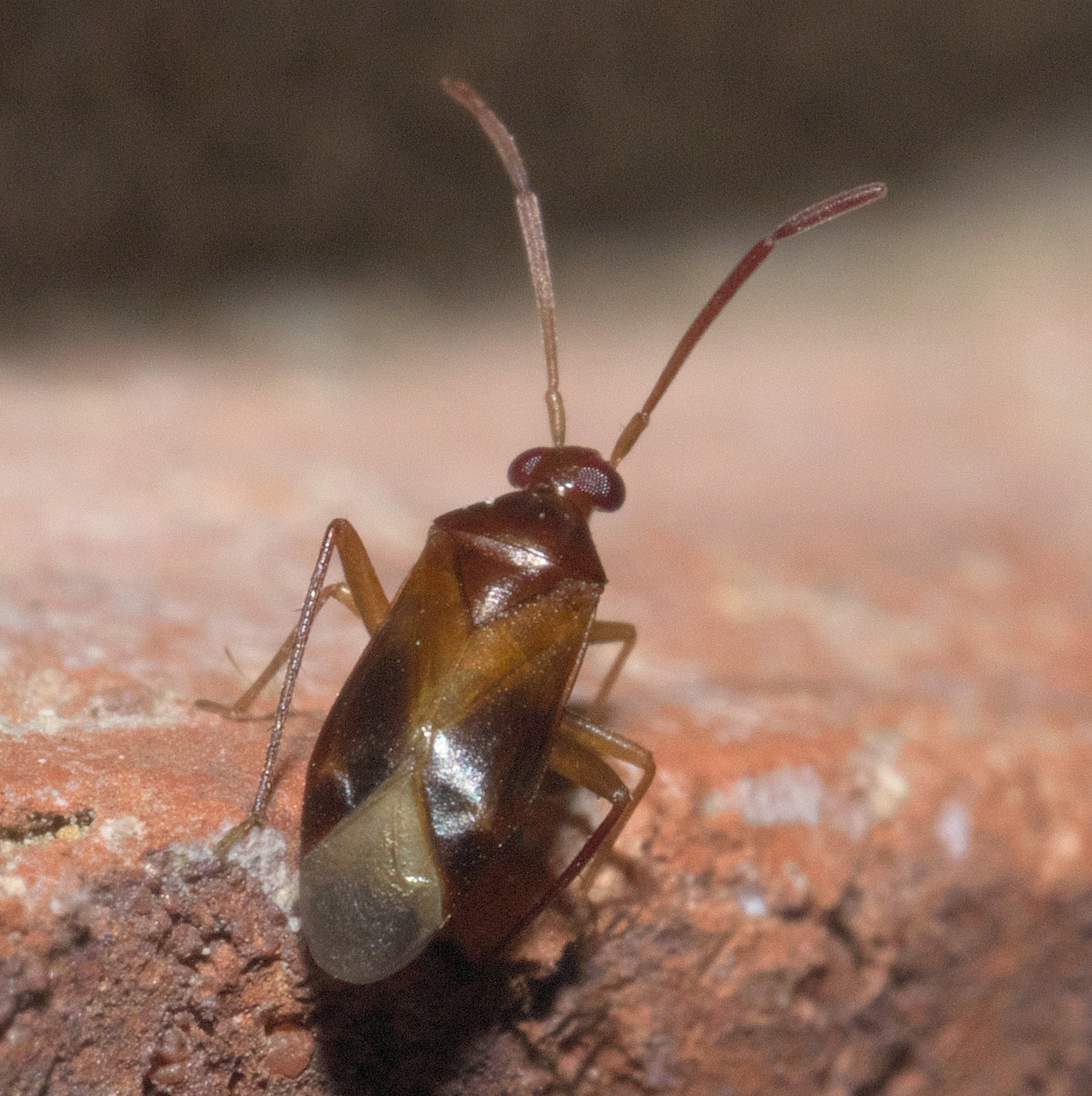 Ceratocapsus, Family: Plant Bugs, ID Confidence: 86